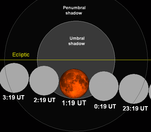 November 2003 lunar eclipse chart of moon's total lunar eclipse path through the earth's shadow. thumb